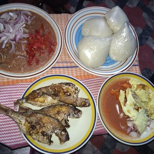 Akple kple borbi tadi enye esia. Ne nye be ekede nu le nudor me la, ke ezor nyuiee! Mawu ayra amesi wo dui ne le akpe dada me. This is an image of food from Ghana